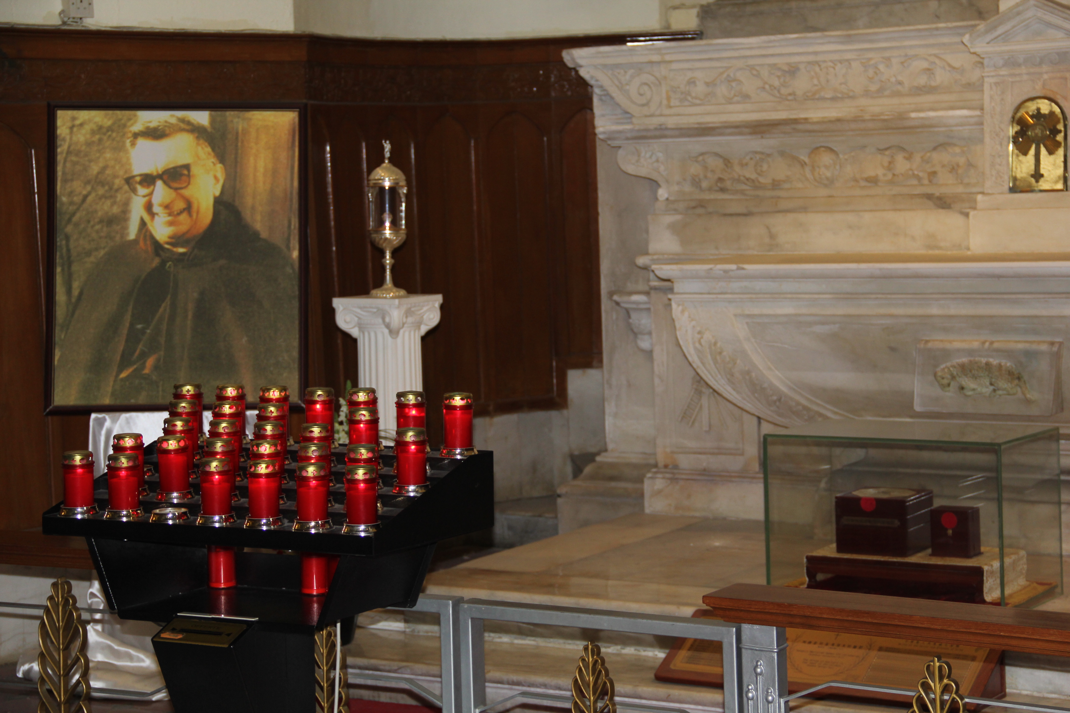 This is a photo of Gabriele Allegra in the Roman Catholic Cathedral of Hong Kong